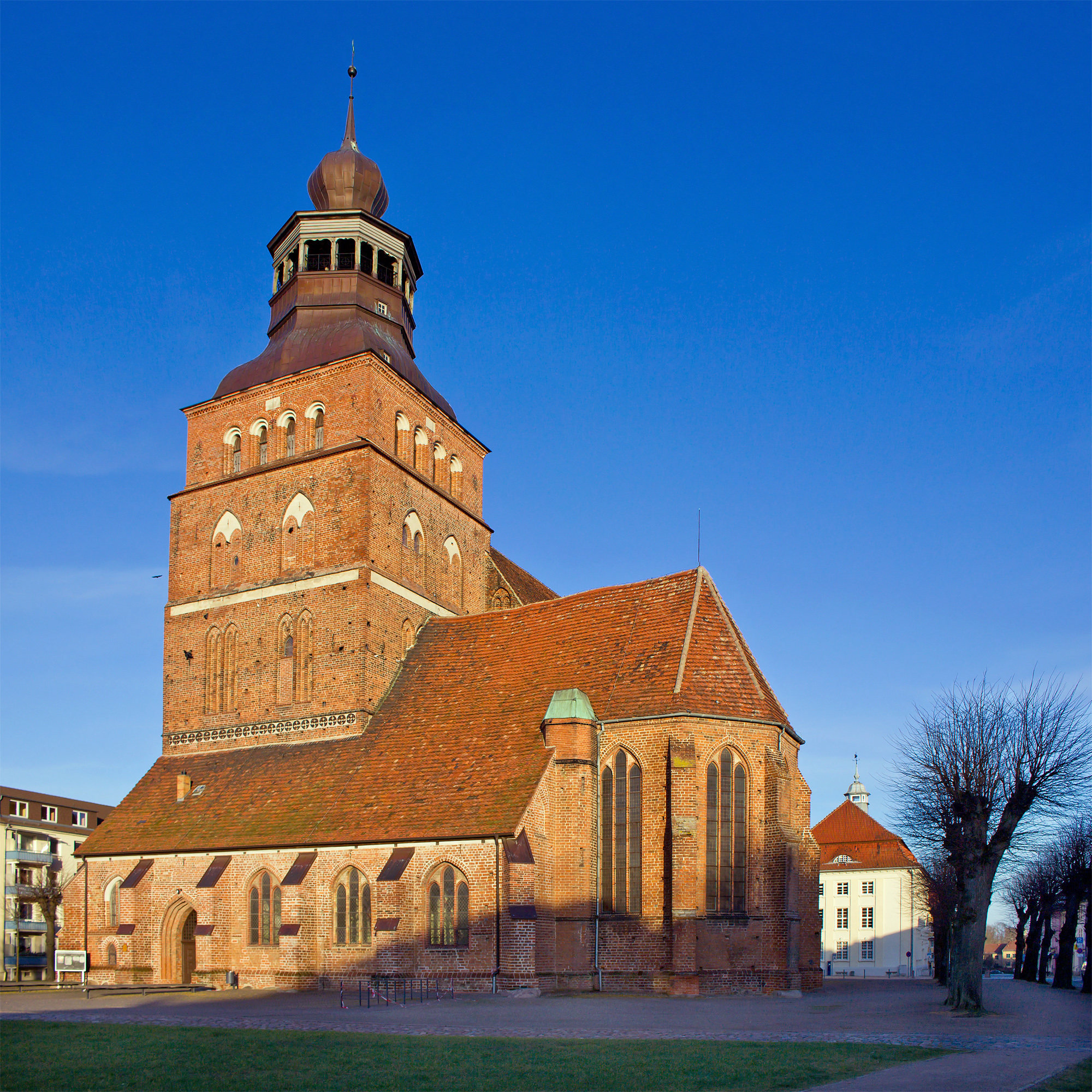 Cultural heritage monument Church St. John in the small town Malchin, north-eastern Germany.